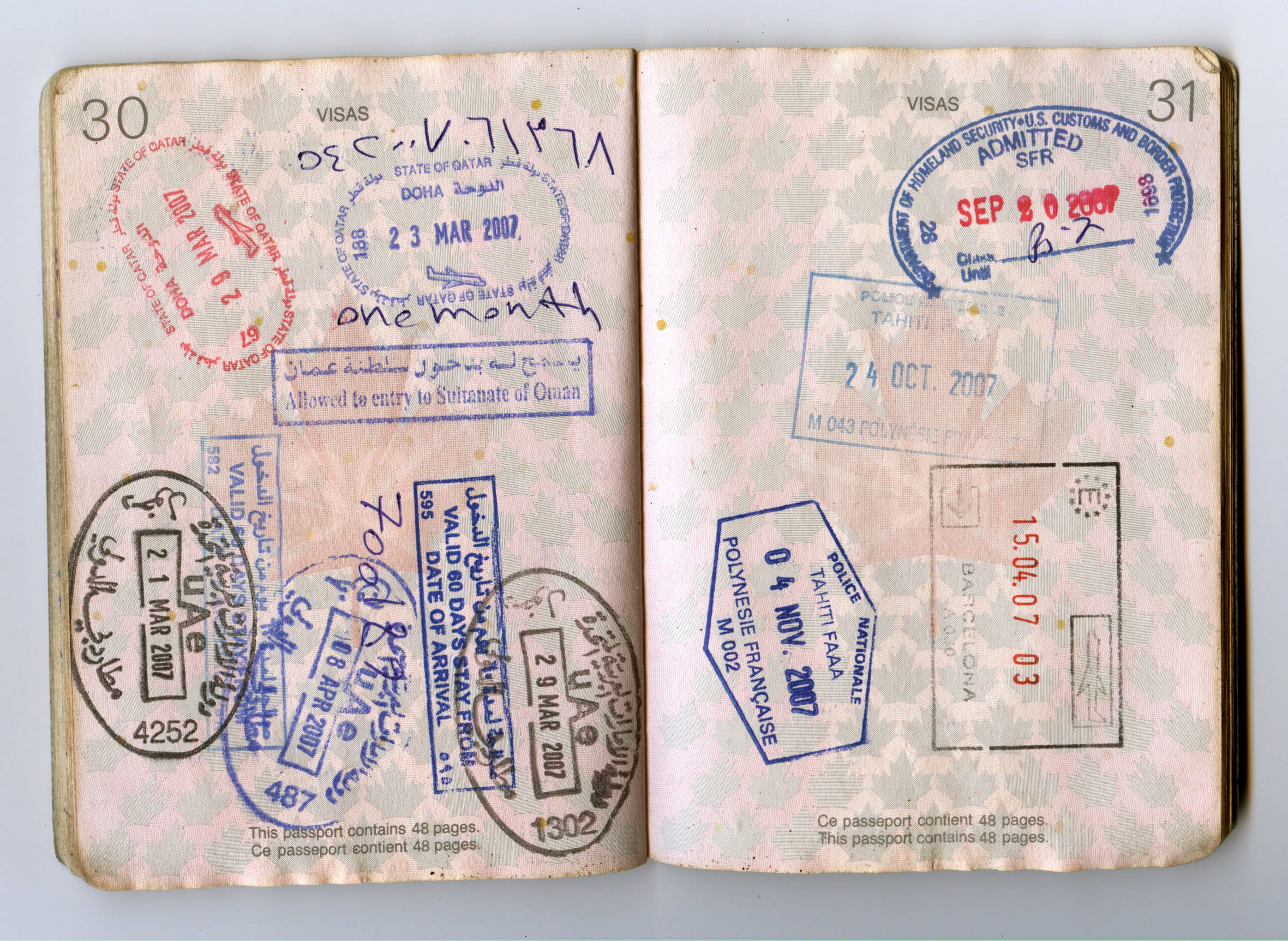 Passport stamps from Qatar, UAE, French Polynesia, Spain and the US